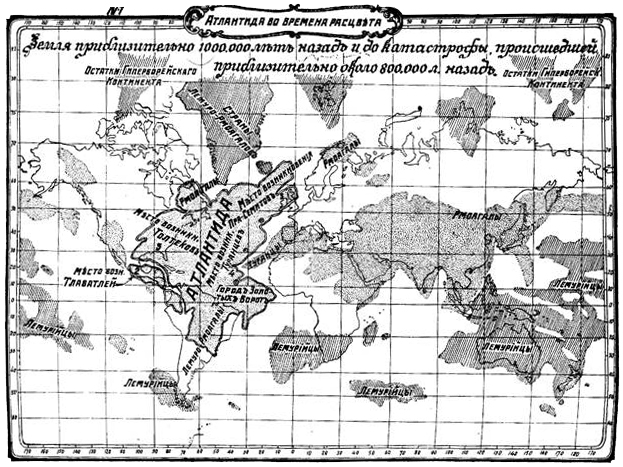 Map of Atlantis according to William Scott-Elliott.